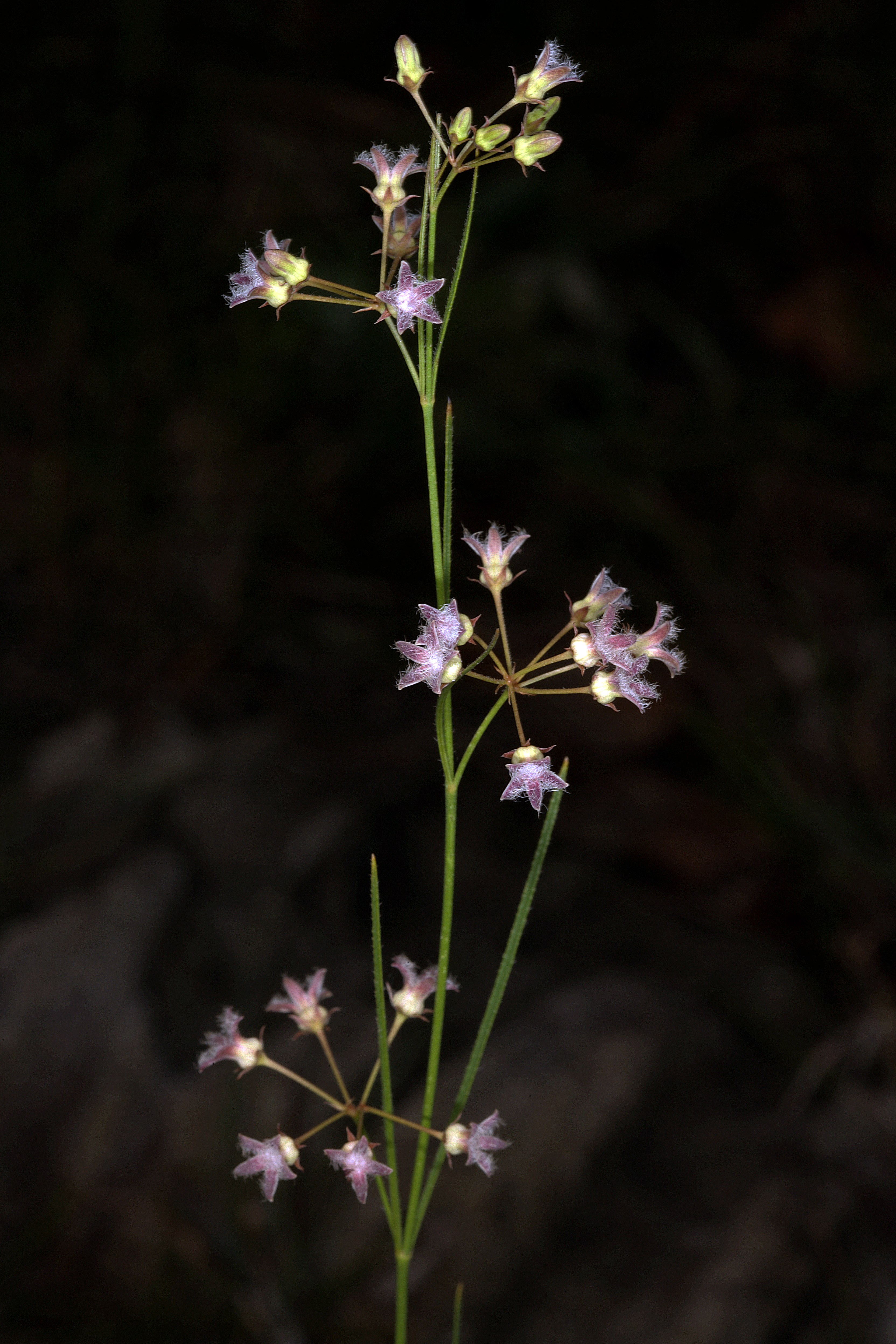 Sisyranthus virgatus, flowers; Pondoland, Mnyameni River, grassland above waterfall, Eastern Cape, South Africa